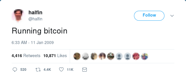 First tweet about bitcoin by Hal Finney (@halfin; 2009-01-11): "Running bitcoin"